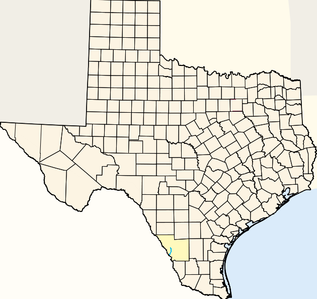 Map of Texas Highlighting Chacon Creek